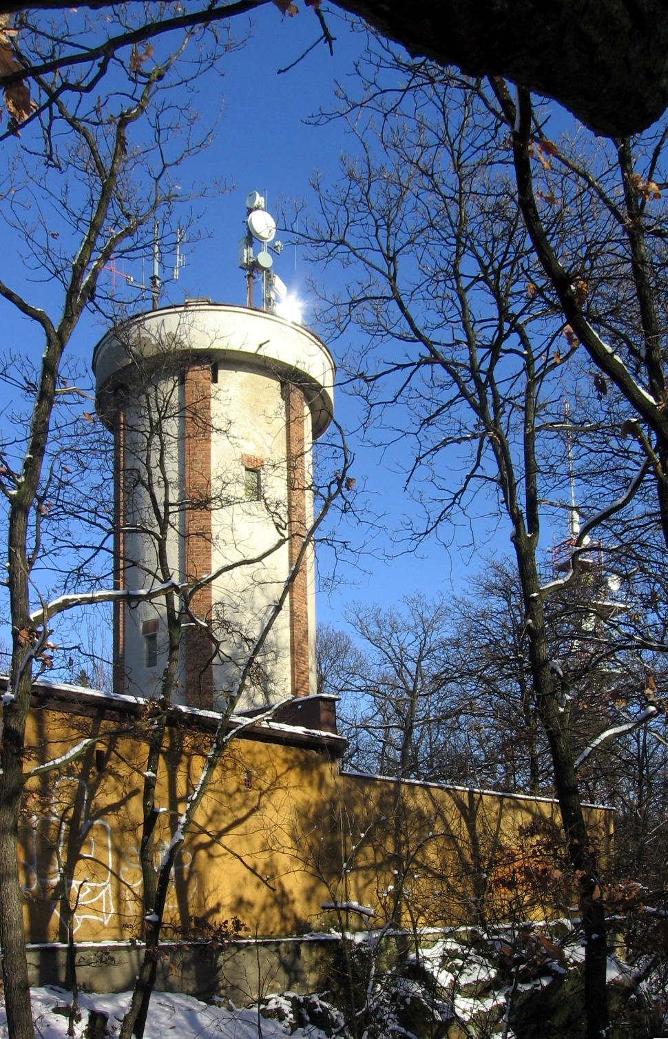 Ládví - old geodetic tower. Prague-Ďáblice, Czech Republic. projection rectified using hugin, nona and gimp